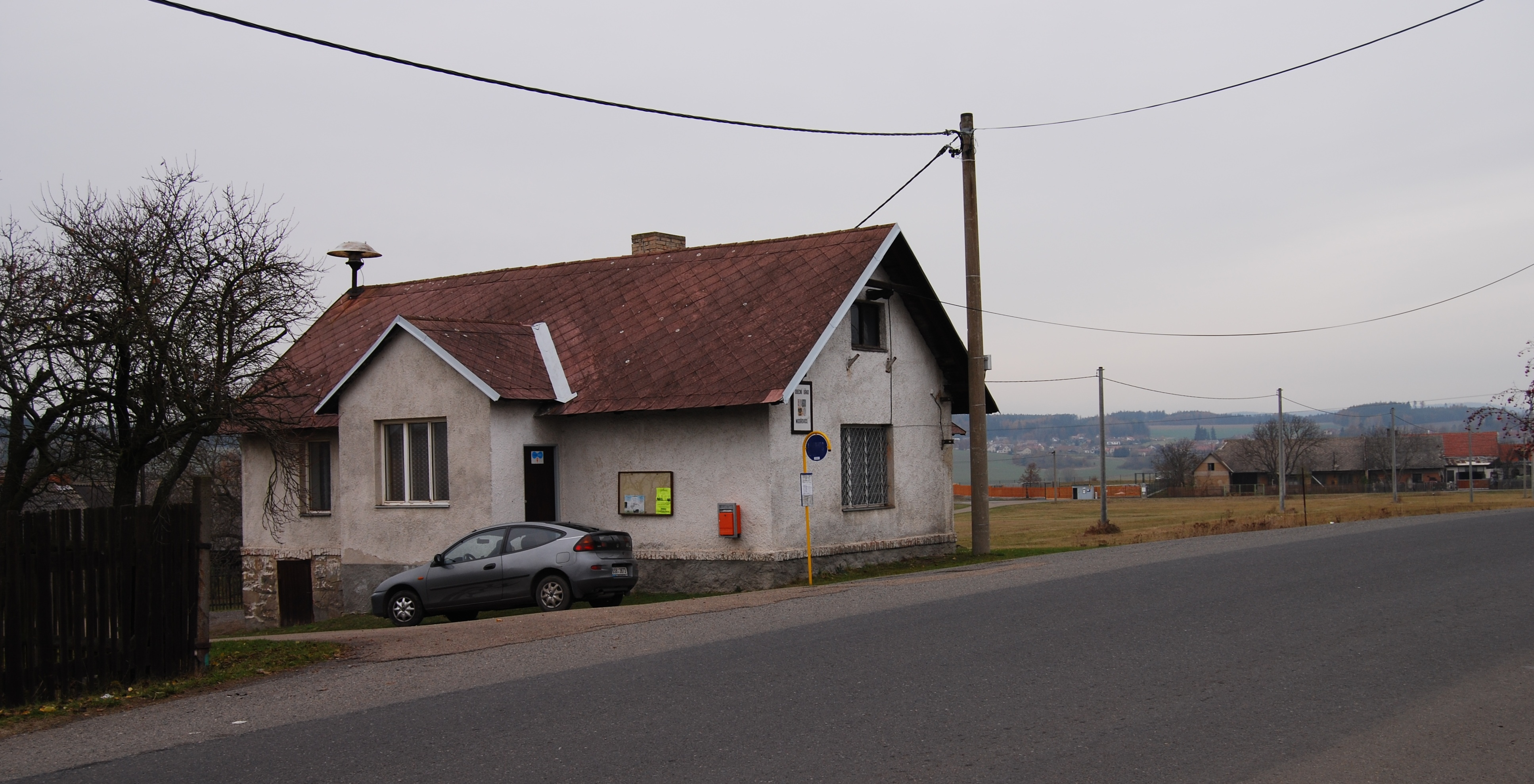 Modřovice village in Příbram District, Czech Republic. Municipality office.